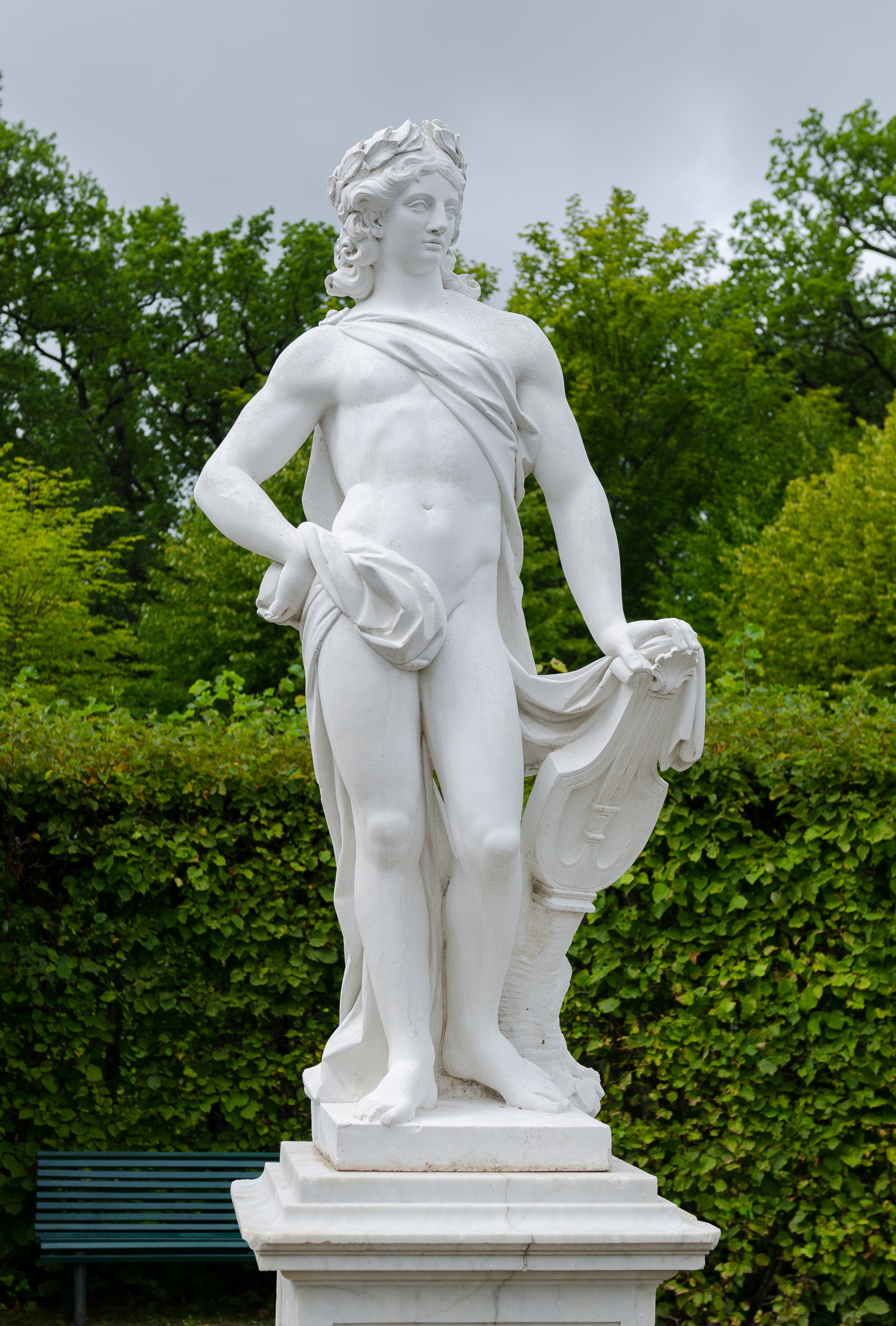 Apollo kitharoides, sculpture. Drottningsholm Palace garden. Copy of an antique sculpture. King Gustav III purchased several sculptures during a a journey to Italy 1783-84.